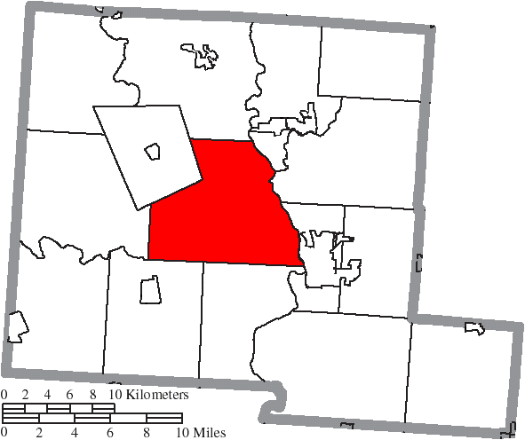 Map of the municipal and township boundaries of Pickaway County, Ohio, United States, as of the 2000 census, with the location of Jackson Township highlighted. Township borders are shown only in unincorporated areas in order to differentiate incorporated and unincorporated areas more clearly.